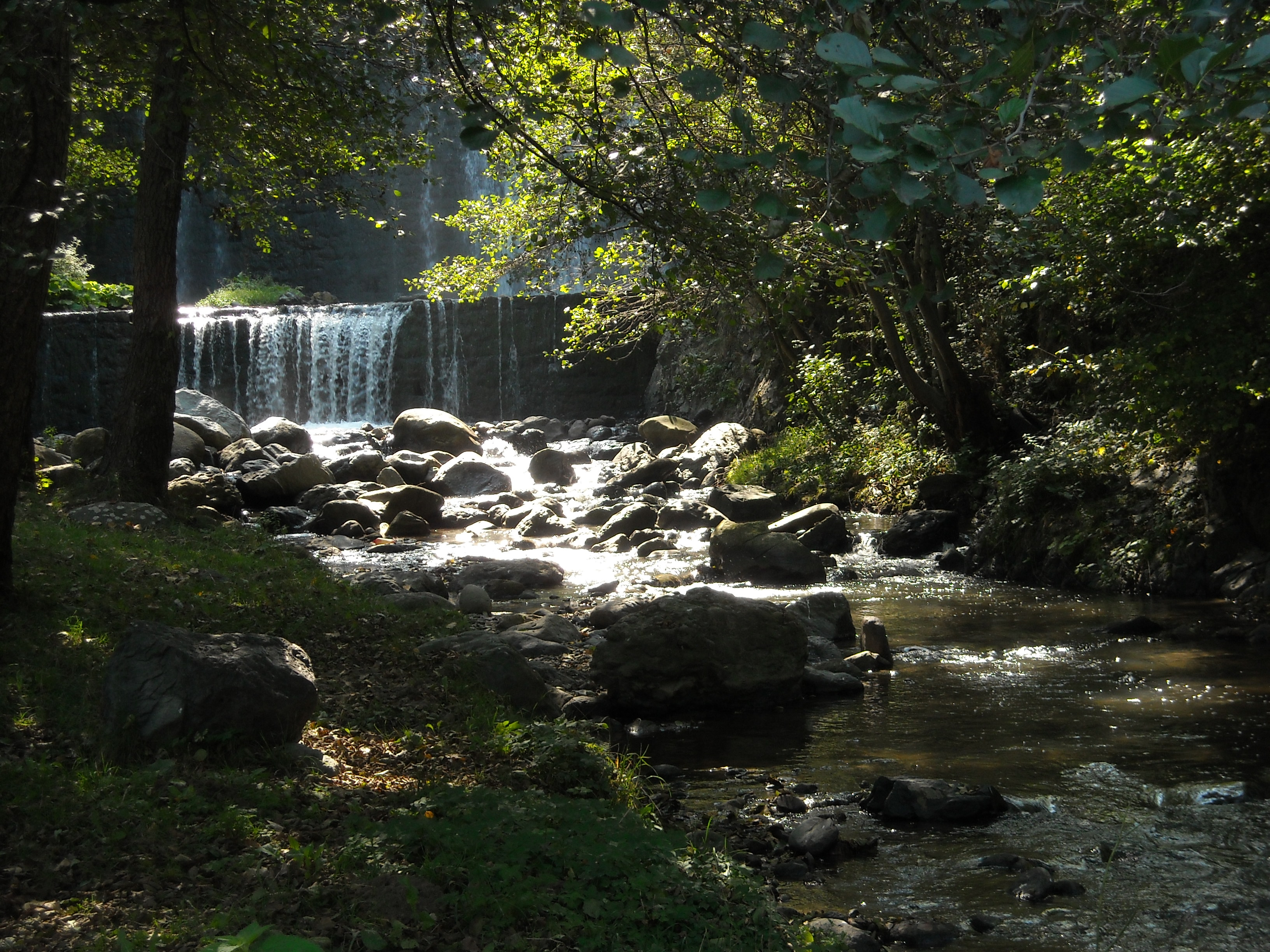 Bistritsa river, near Pancharevo, Sofia